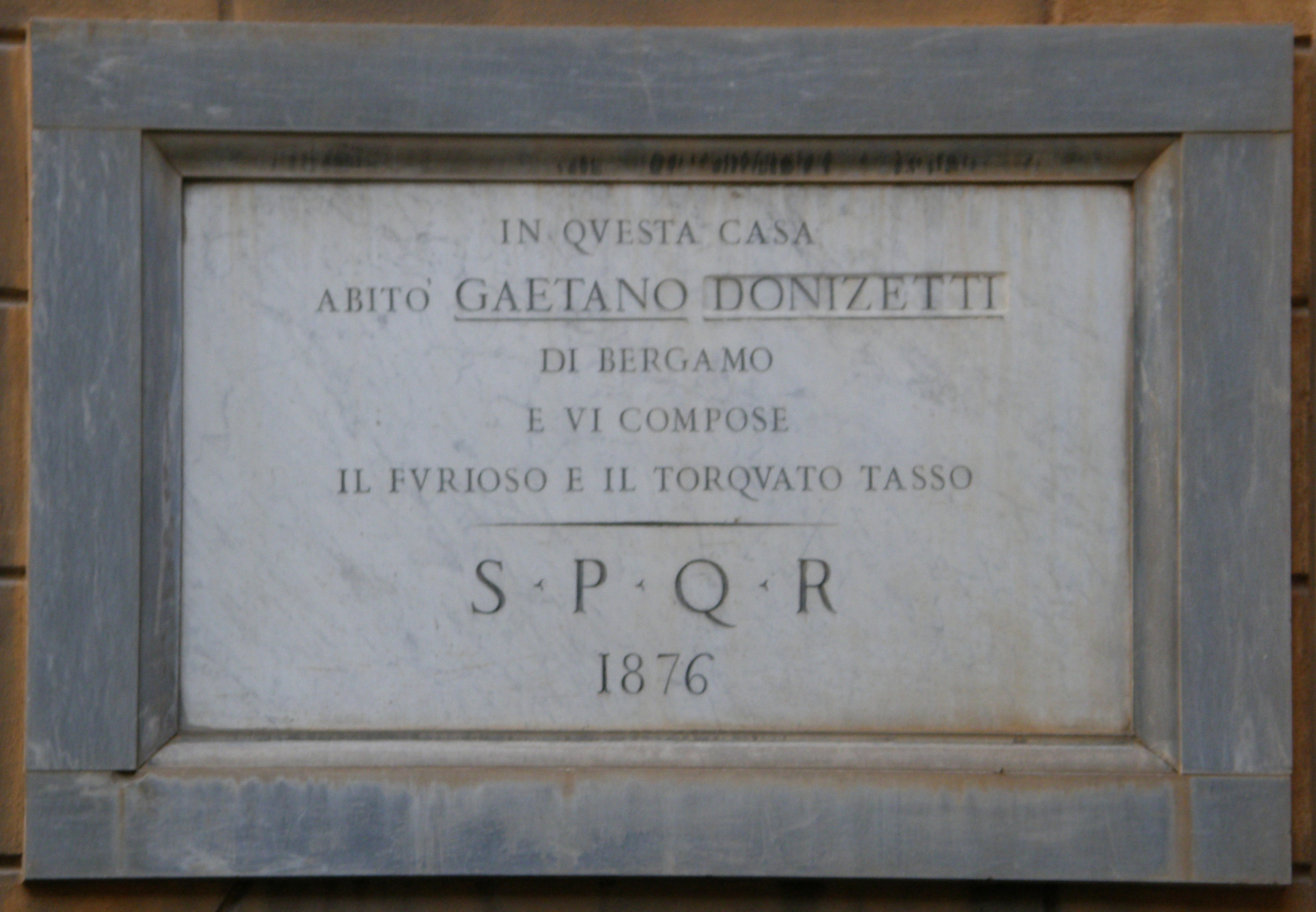 Rome, Italy - Via delle Muratte - Commemorative plaque devoted to Gaetano Donizetti